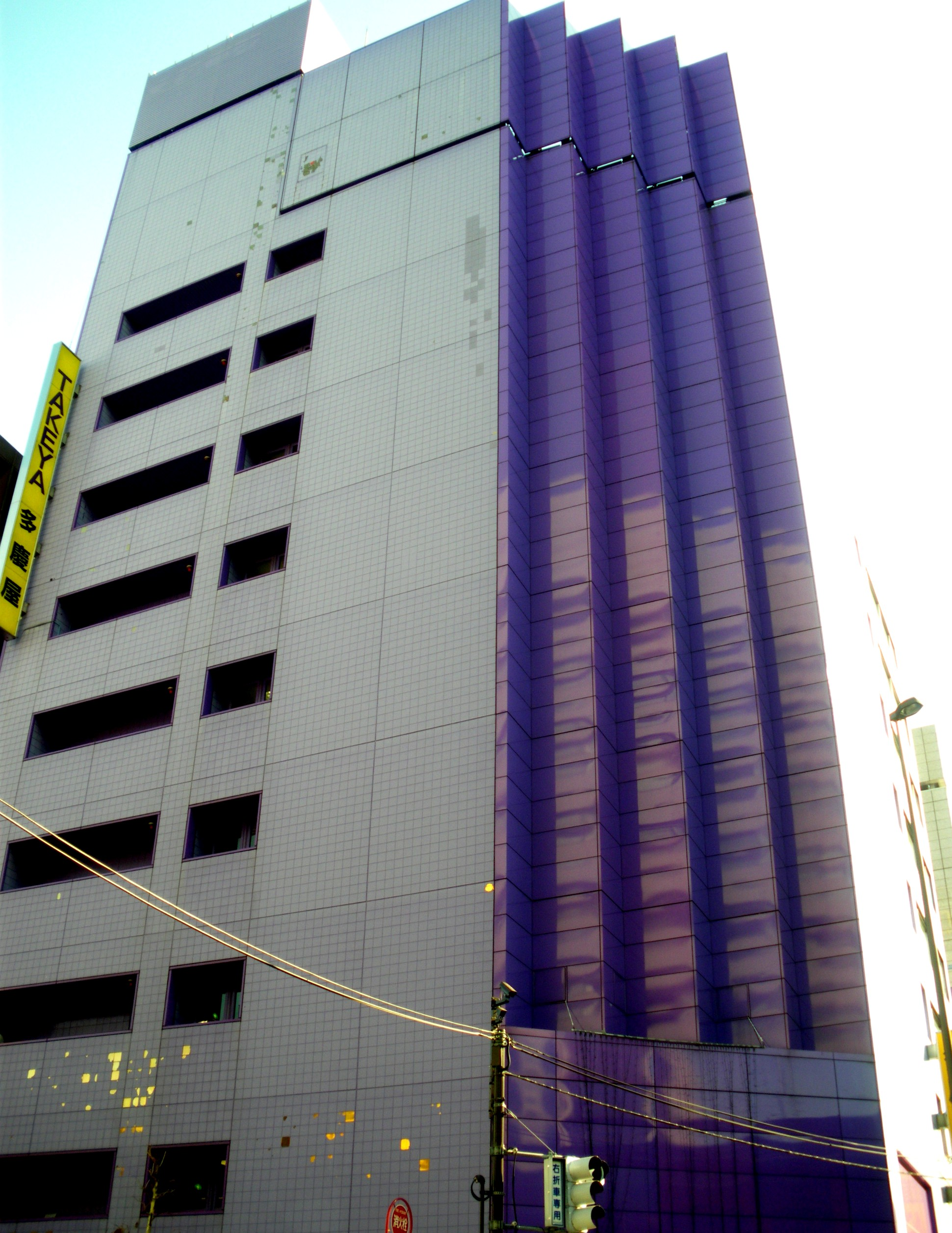 A photo of TAKEYA(a discount store),Taito,Taito-ku,Tokyo,Japan.